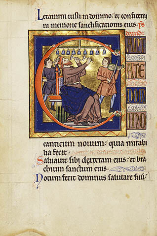 Page from a French Psalter, John Paul Getty Museum, Los Angeles, Ms 66